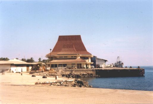 Dili harbour. Buildings with roofs on traditional timorese style.